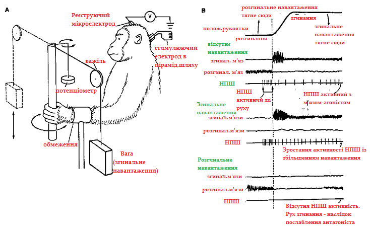 Ed Evarts experiment with monkey, 1968. The activity of motor cortical neurons codes the direction of force exerted